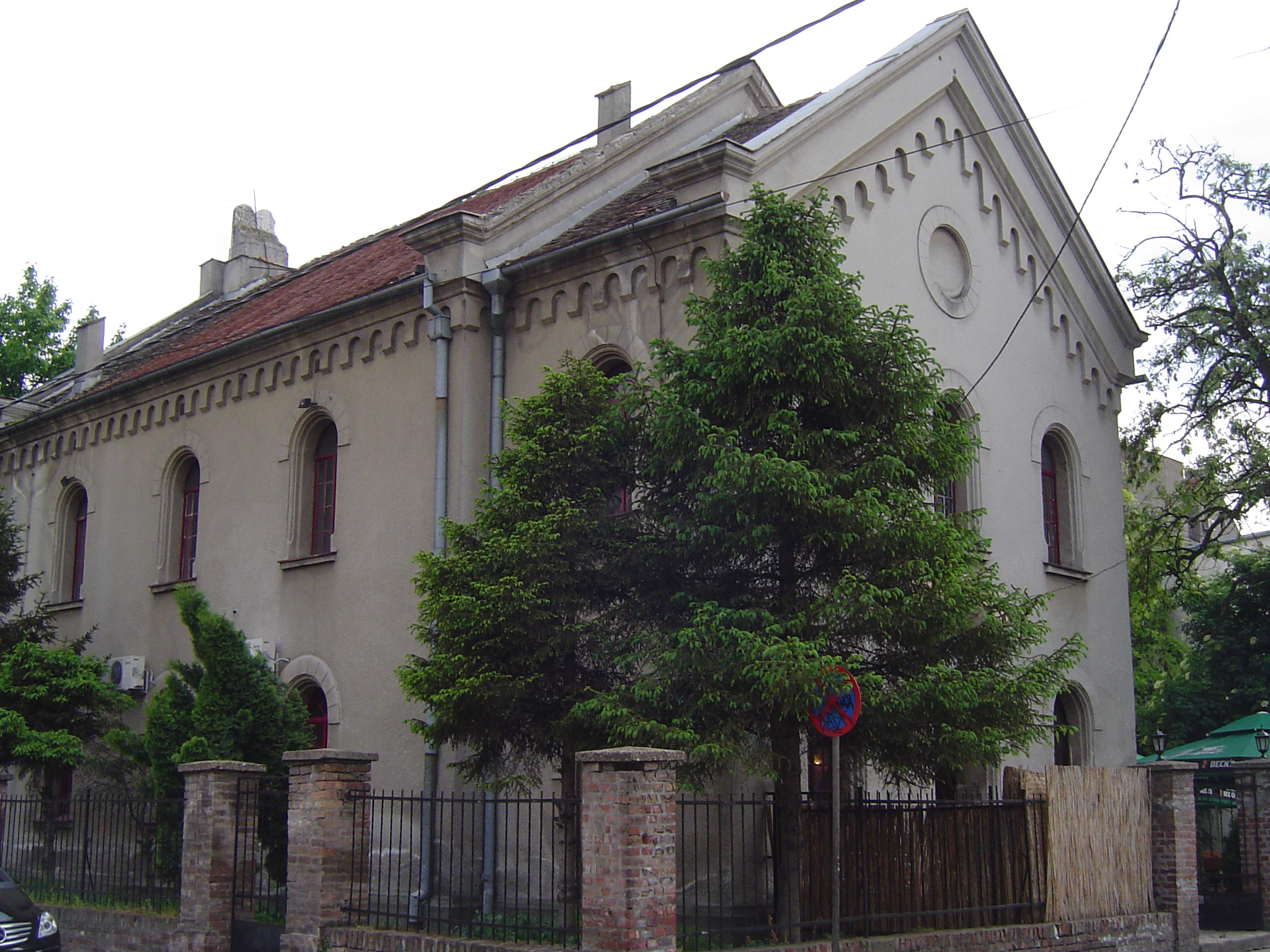 Zemun synagogue, Belgrade, Serbia